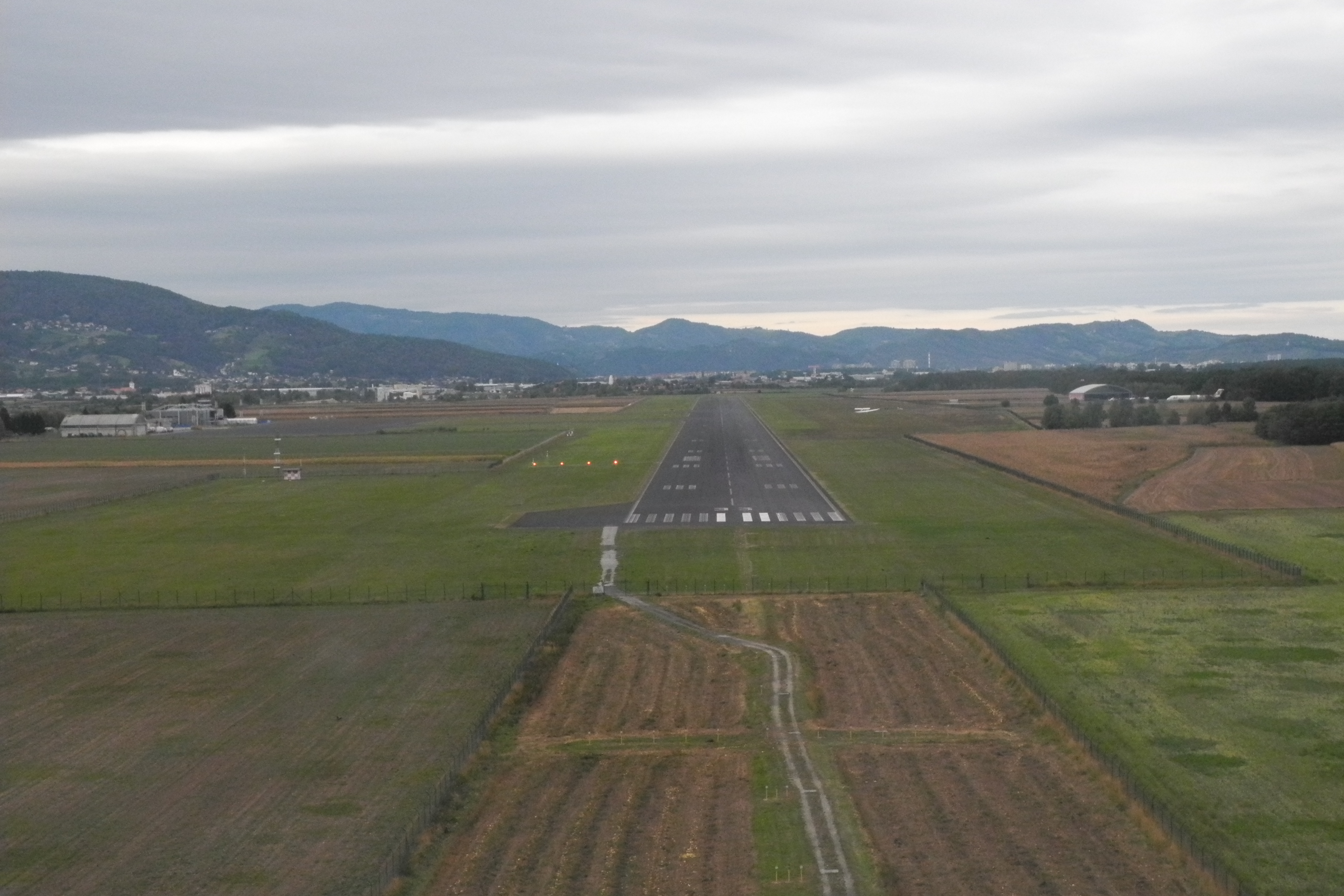 RWY 33 Maribor Airport